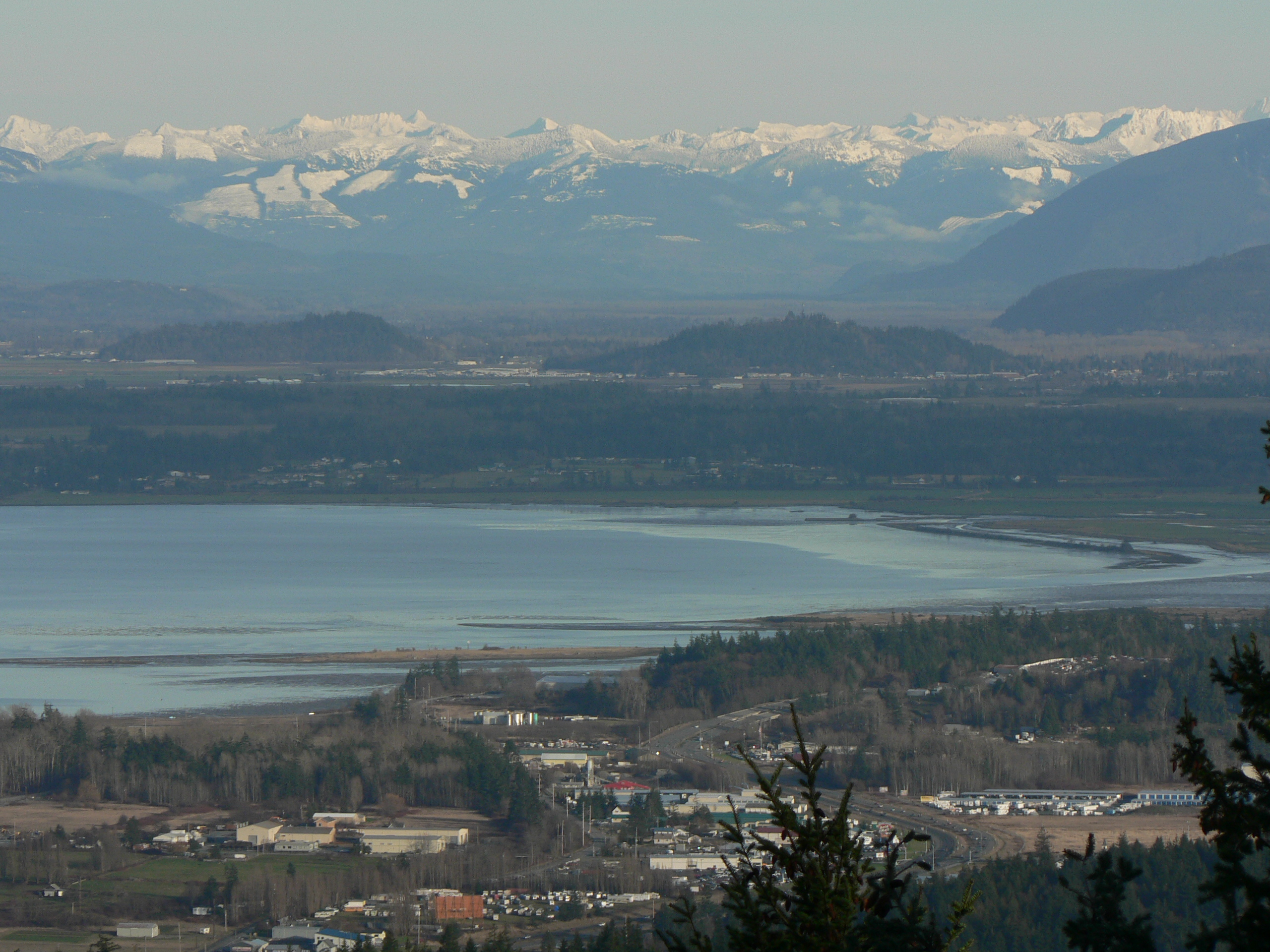 Padilla Bay and March Point (foreground); Skagit River Valley and North Cascade Range (beyond)